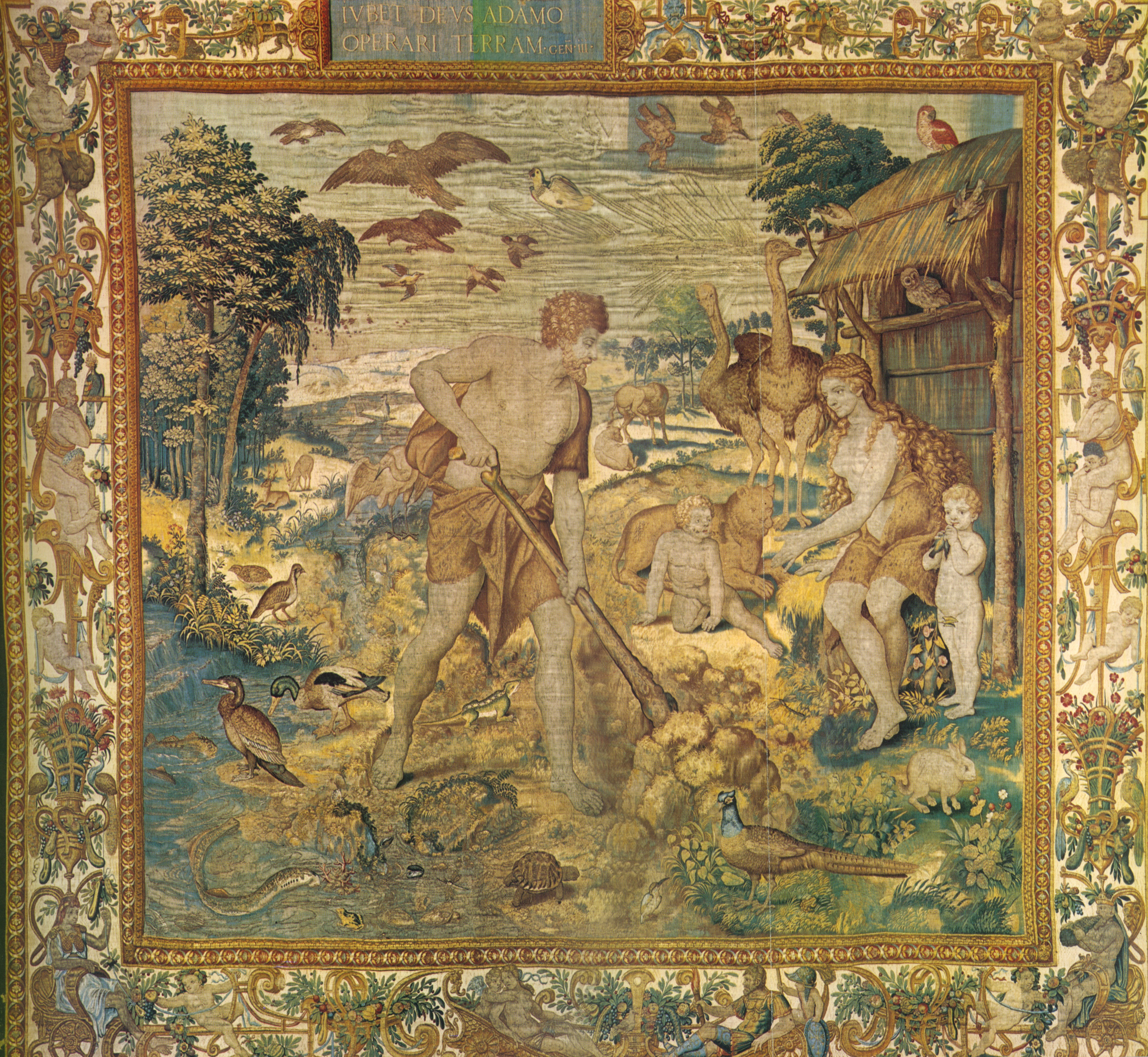 Adam working in the field. Series History of the First Parents.